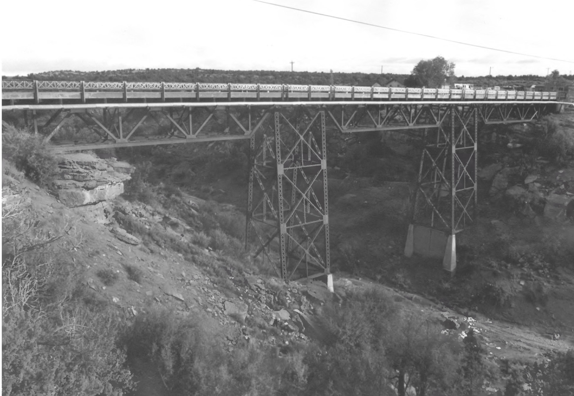 Querino Canyon Bridge